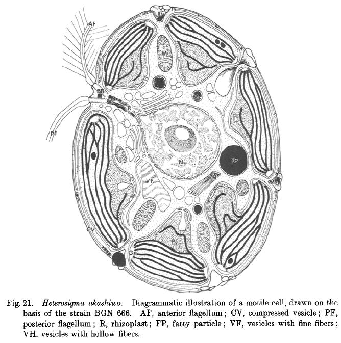 Hara and Chihara Fig 21. Sketch of Heterosigma akashiwo internal anatomy.